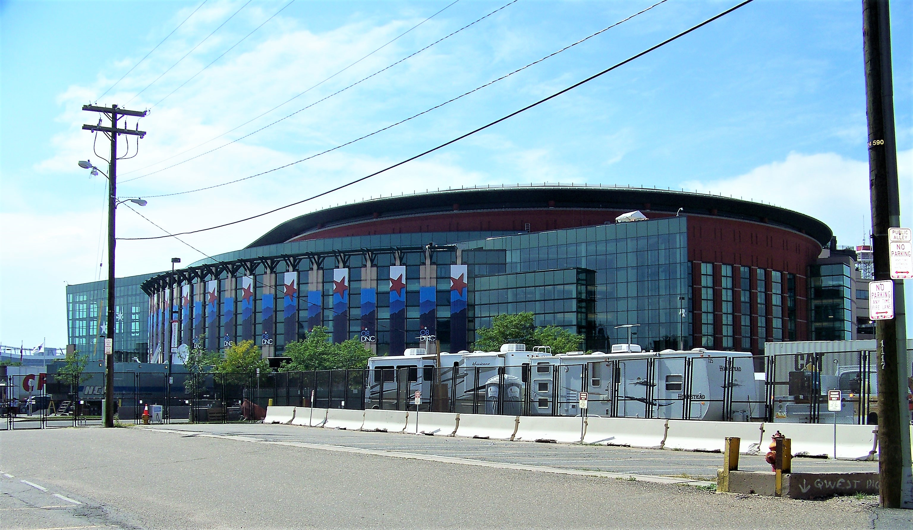 Pepsi Center, during the Democratic National Convention in Denver, Colorado, August 25-28, 2008. Photo by Jim Heaphy.